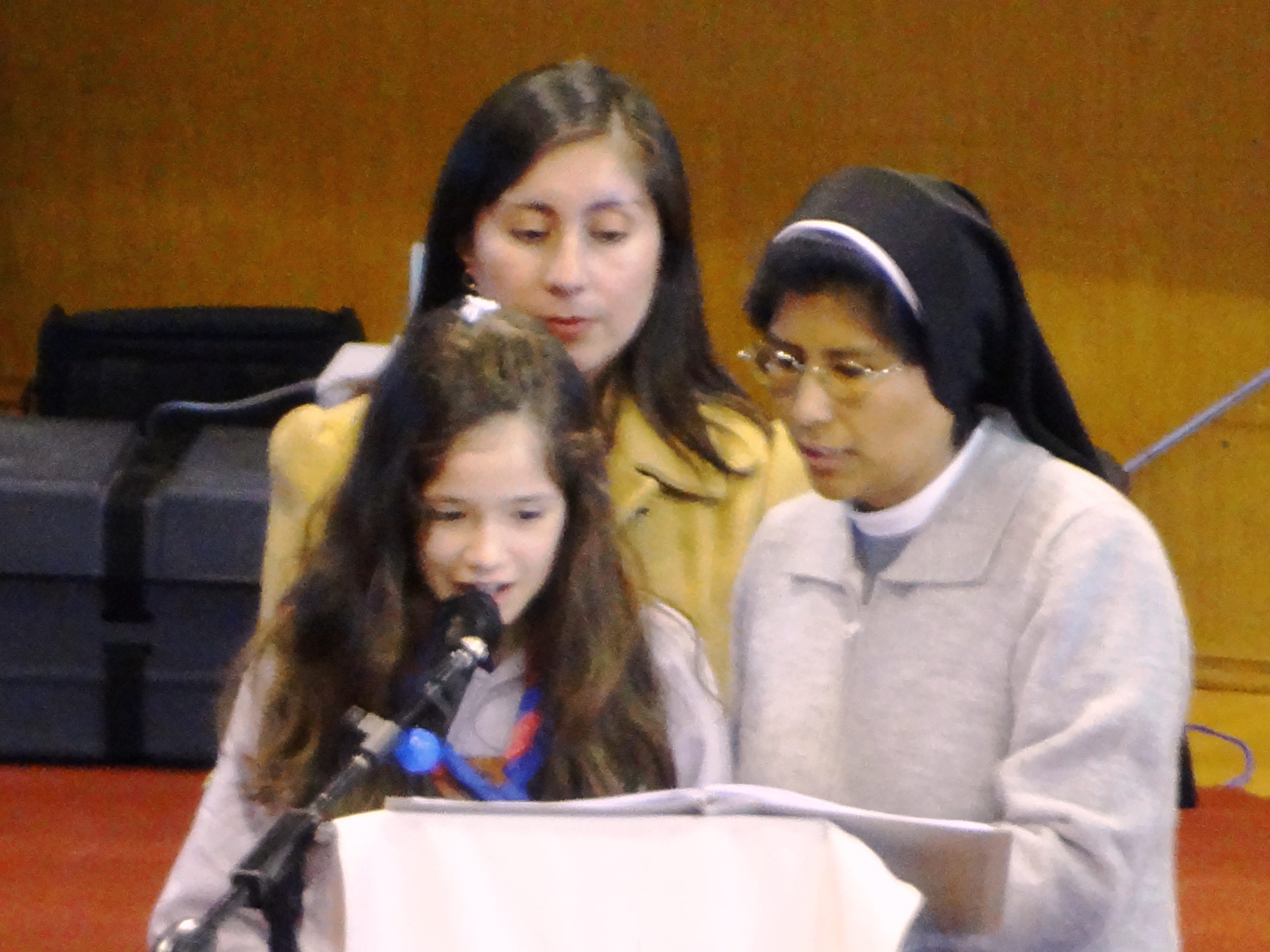 There are different ways of teaching.